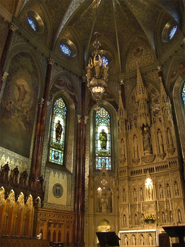 St.Patrick's Basilica, Montreal, Quebec, Canada. Main chapel.